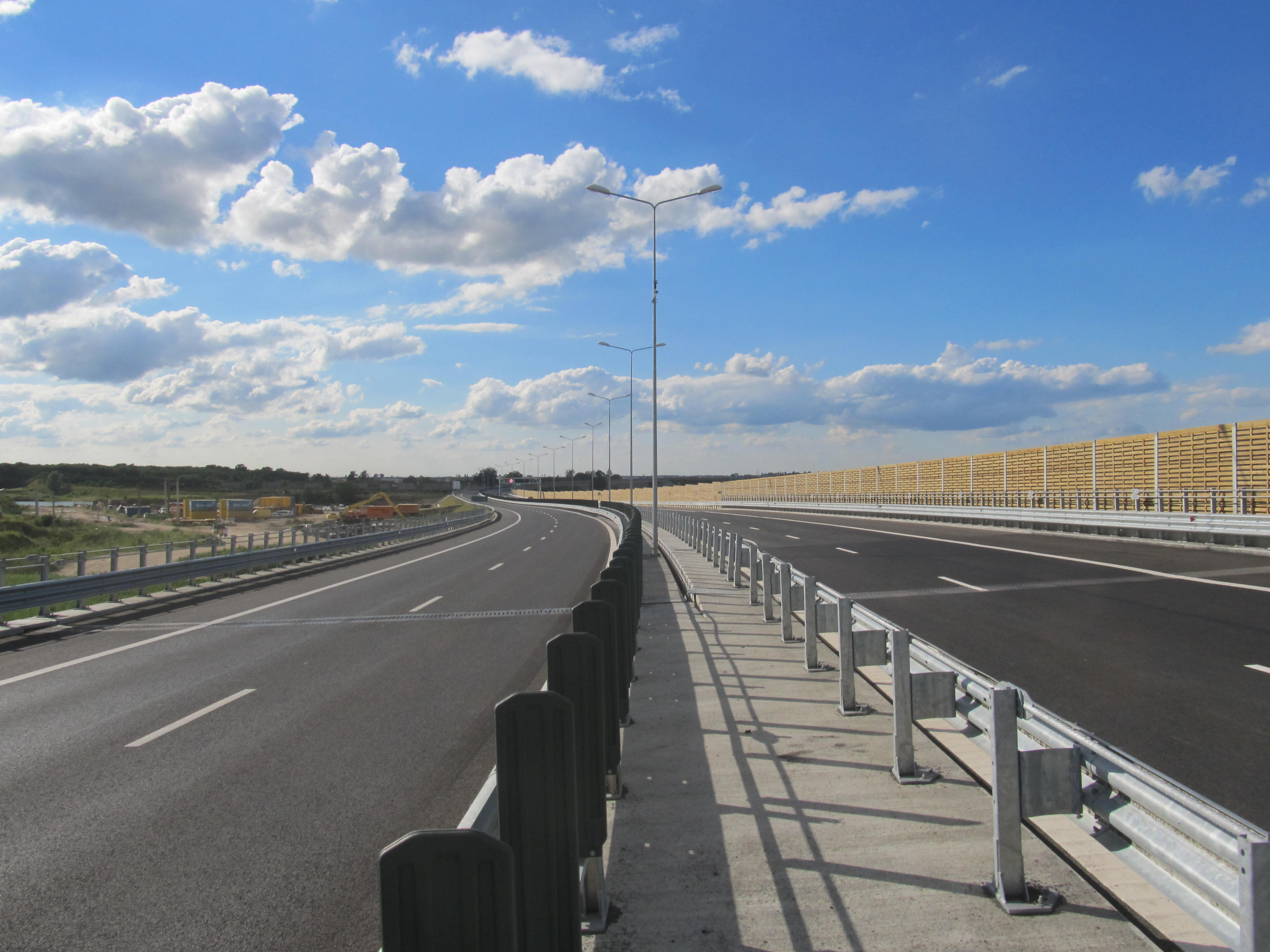 Arad bypass motorway, Romania, at the bridge over river Mureș.